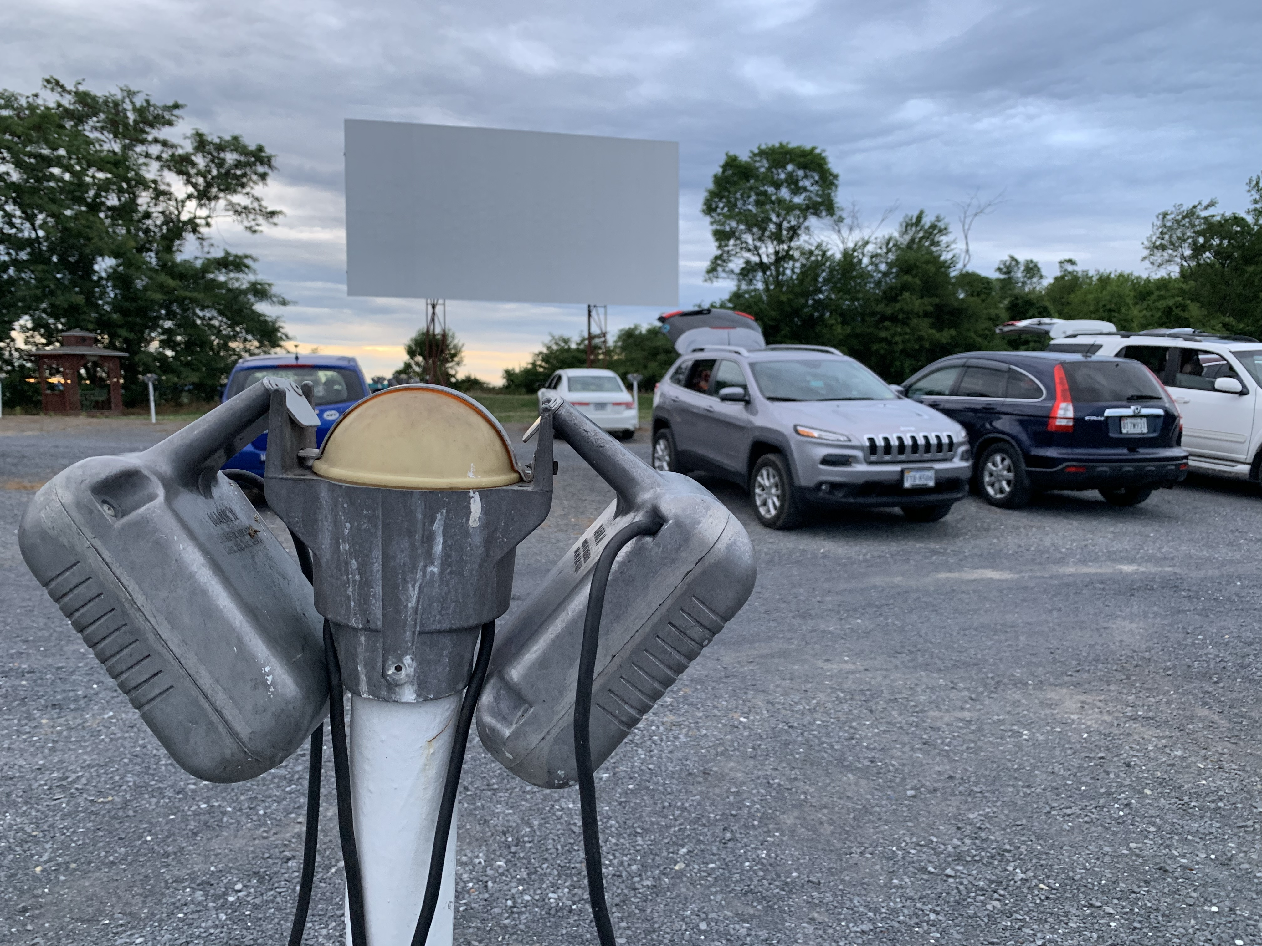 Family Drive-In Theatre in Stephens City, Virginia